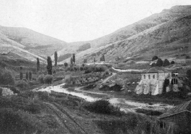 The village of Ayan, Crimea, 1915